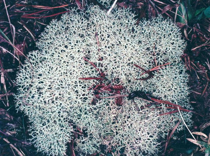 Cladonia subtenuis (Abbayes) Mattick Photographed in the field. This specimen of C. subtenuis was growing on soil along the pathway between the Grand Overlook and the gravel road leading to the Visitor Center at the Soldiers Delight Natural Environment Area, Owings Mills, Baltimore County, Maryland, USA. Identity determined by E.C. Uebel.